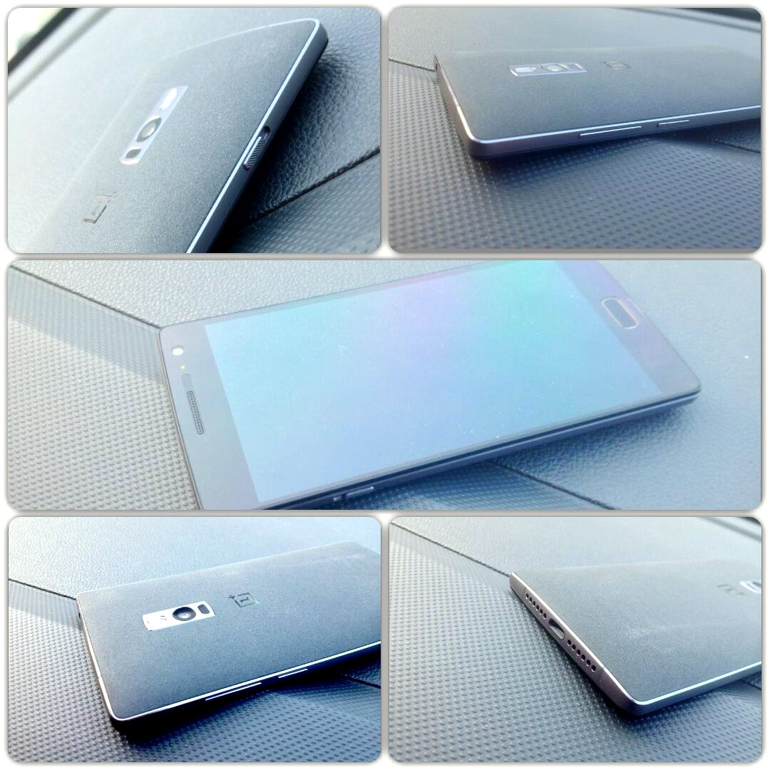 The Best phone 2015 : oneplus 2 Flagship killer